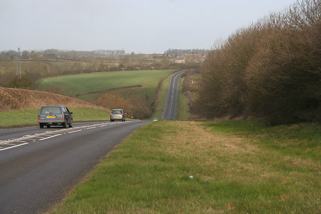 Potter Hill near Melton Mowbray. Looking NW along the A606 from Potter Hill, Ab Kettleby SK7223 in the distance.